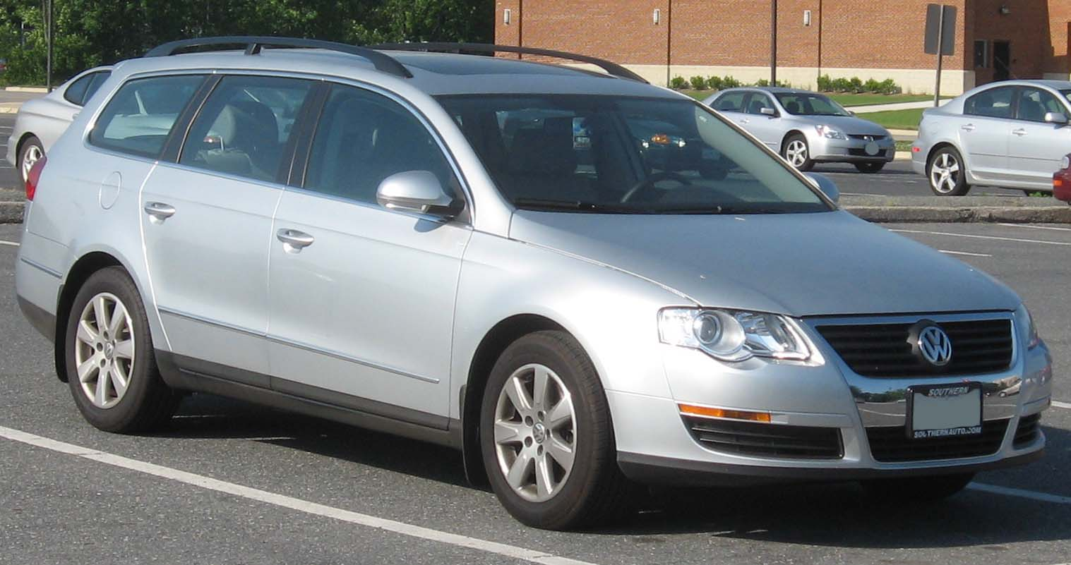 2006-2007 Volkswagen Passat photographed in USA.